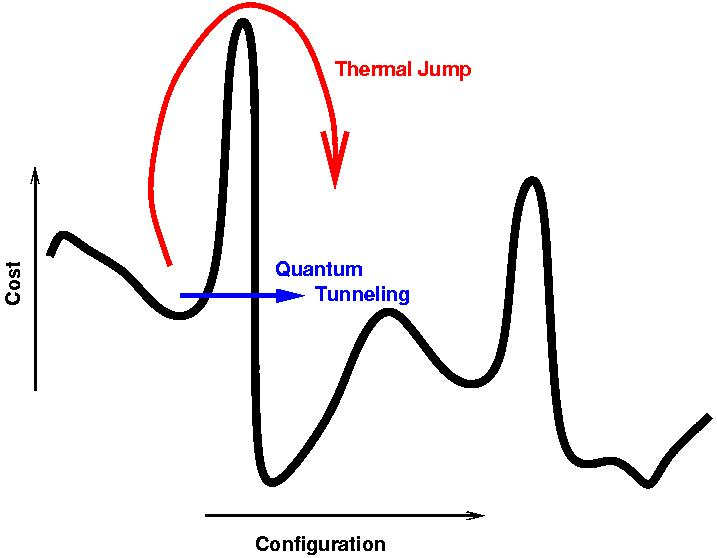 Quantum annealing: a rugged cost/energy landscape (cost along y axis, configuration along x), showing that the thermal jump has to be over the barrier (in red) - but the quantum tunneling may be THROUGH the barrier (in blue); Thus quantum tunneling can be a more efficient means of traversing the rugged landscape when the barriers are tall but thin.